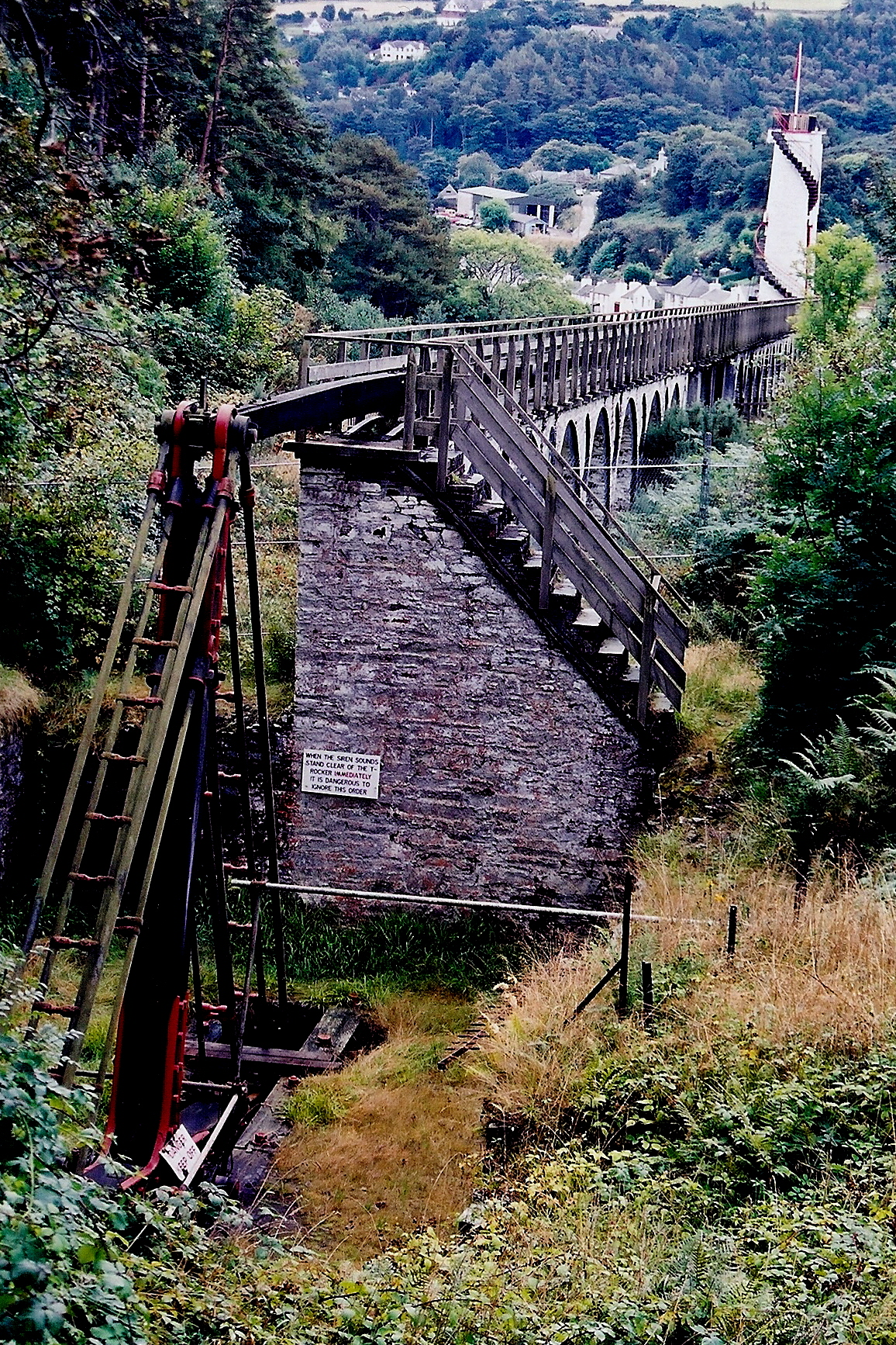 Laxey - The Mines Trail - T-Rocker View is to the southeast towards the T-Rocker. The T-Rocker converts the horizontal motion of the horizontal rod or shaft to a vertical motion down into a vertical mineshaft to pump water out of the deep mine.